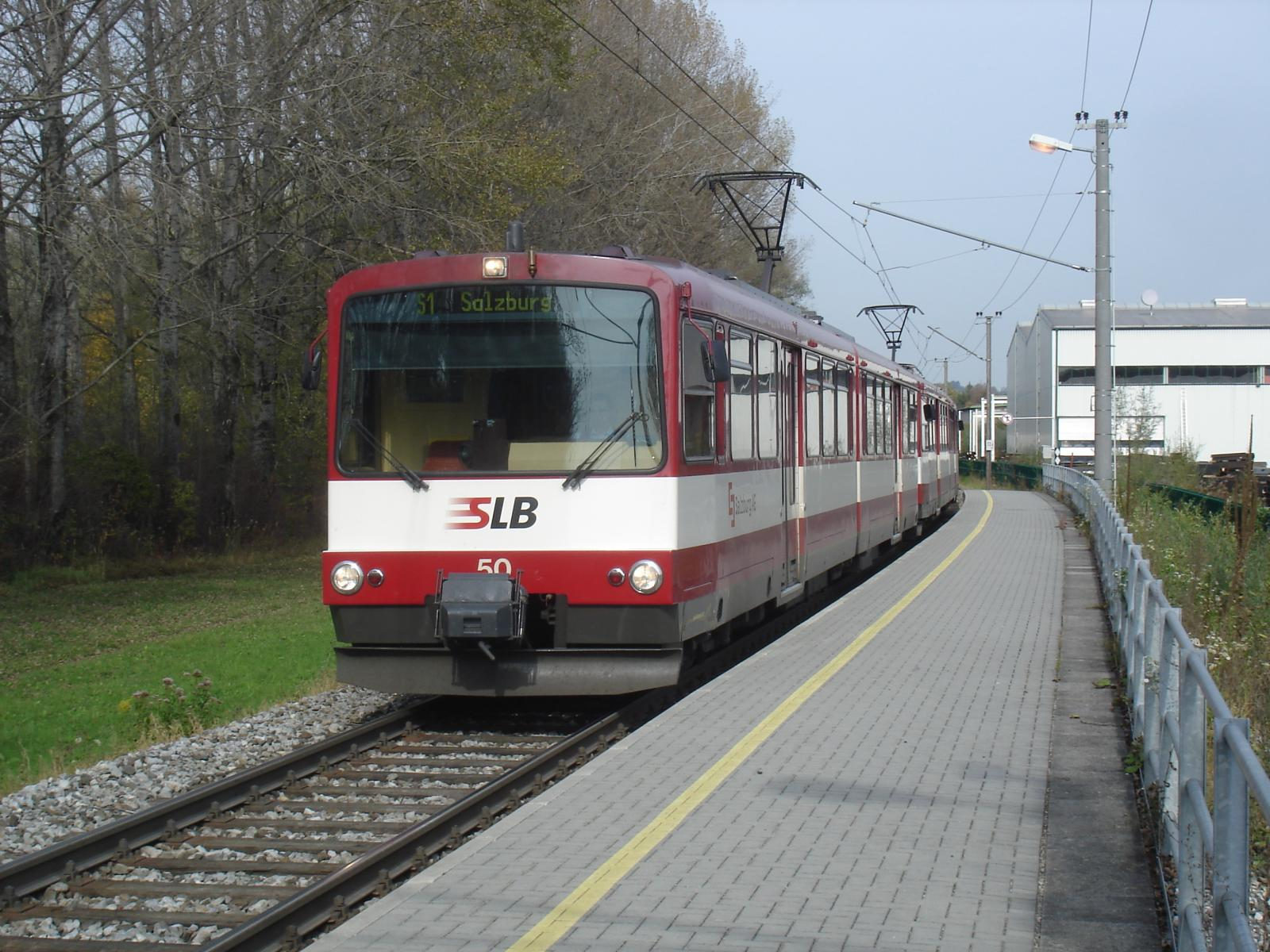 Salzburger Lokalbahn, at Pabing am Haunsberg halt.